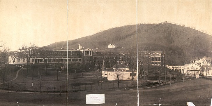 The Homestead in Bath County, Virginia, USA, photographed by the Commercial Panoramic Photo Company in 1903. Cropped from a larger image to aide appearance in thumbnails.